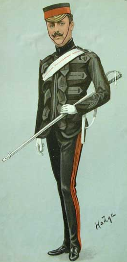 Caricature of James Hamilton, Marquess of Hamilton (1869-1853) (the later 3rd Duke of Abercorn). Caption read "He will be the 3rd Duke".